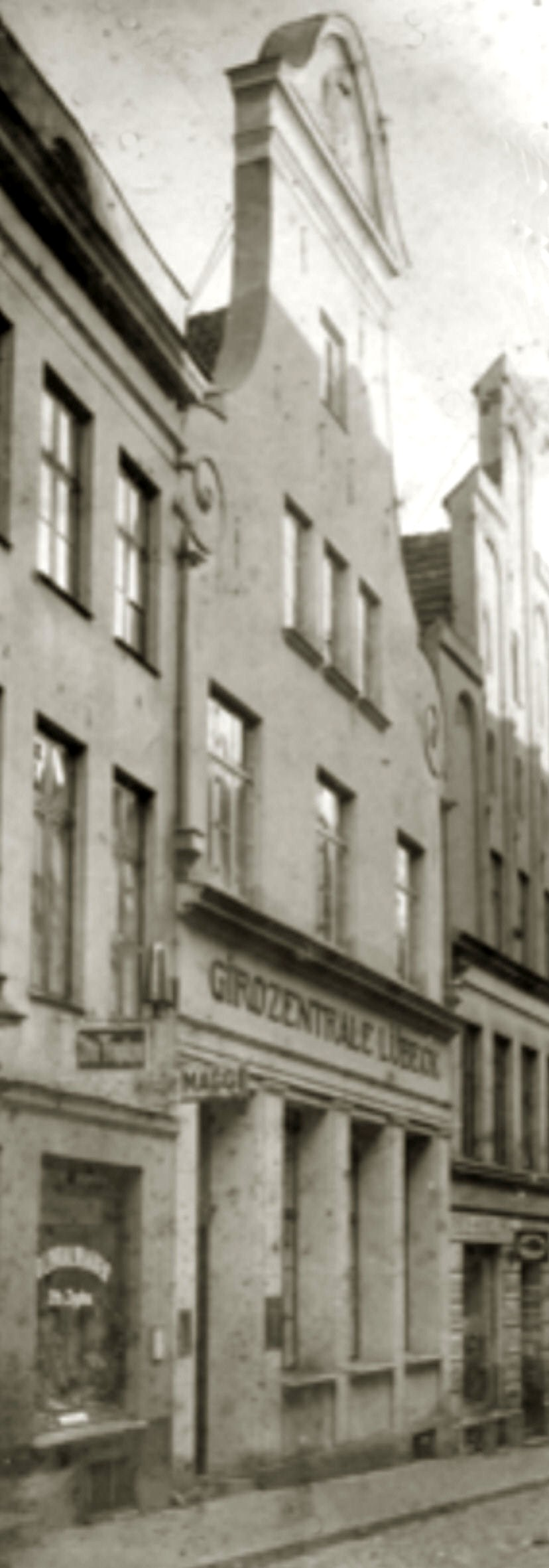 The building Fleischhauerstraße No. 13 in Lübeck, destroyed in 1942